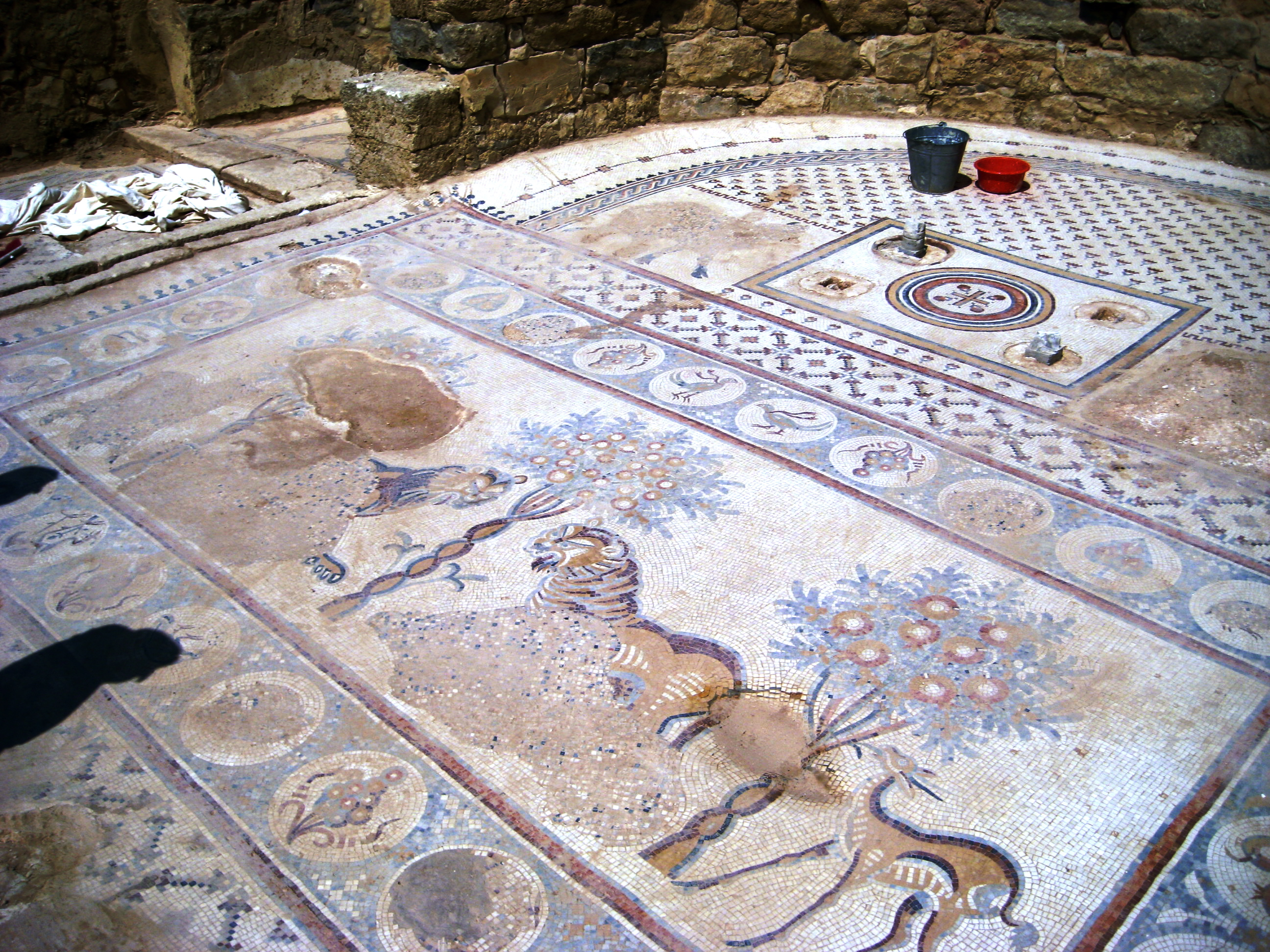 Altar from the Church of the Lions in Umm Ar-Rasas, Jordan.